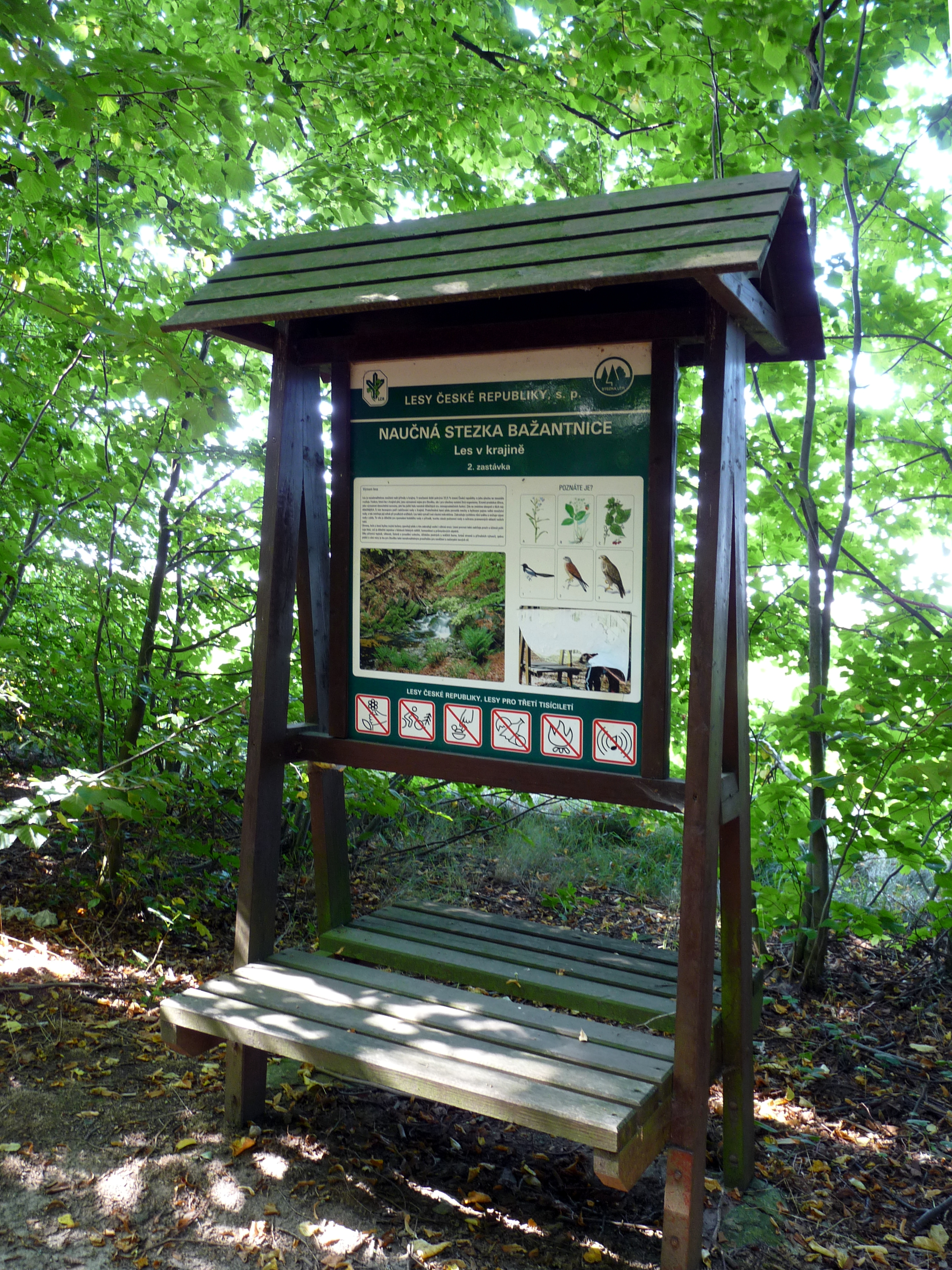 Information board No 2 of the educational trail Bažantnice, situated northwest of the town of Třebíč, Vysočina Region, Czech Republic.